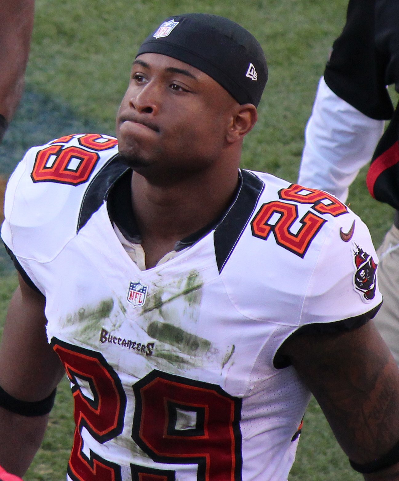 Leonard Johnson, a player on the National Football League.